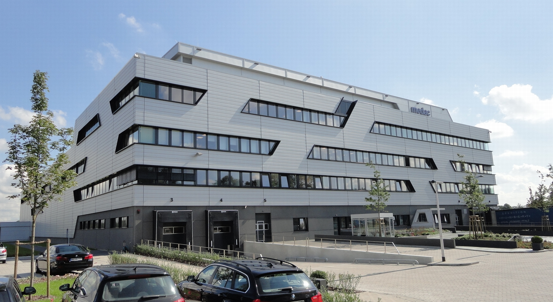 Medac logistic center in Tornesch